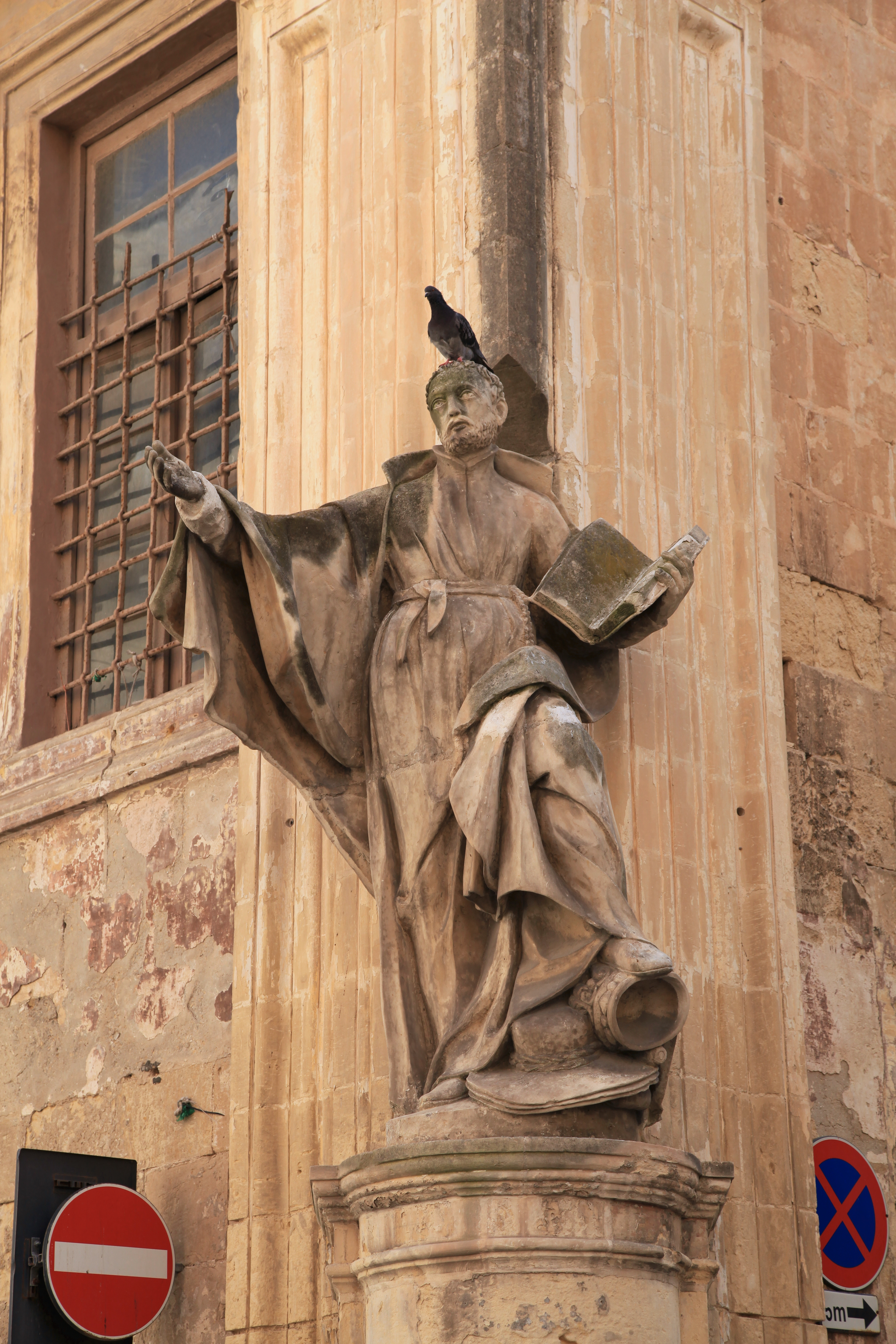 Triq il-Merkanti in Valletta, Malta